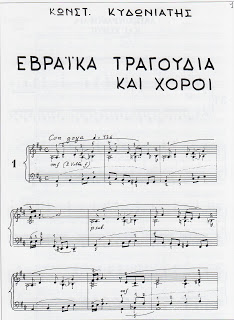 Jewish songs and dances of the Greek composer Kostas Kidoniatis.